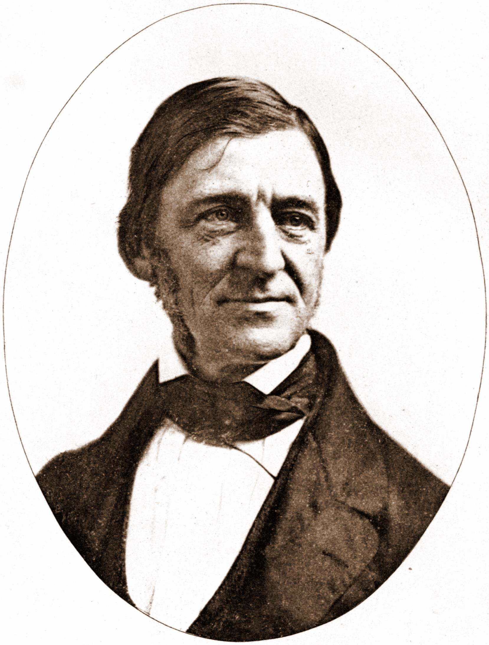 Image of American philosopher/poet Ralph Waldo Emerson, dated 1859. Scanned from Ralph Waldo Emerson, John Lothrop Motley: Two Memoirs by Oliver Wendell Holmes, Published by Houghton Mifflin, 1904.